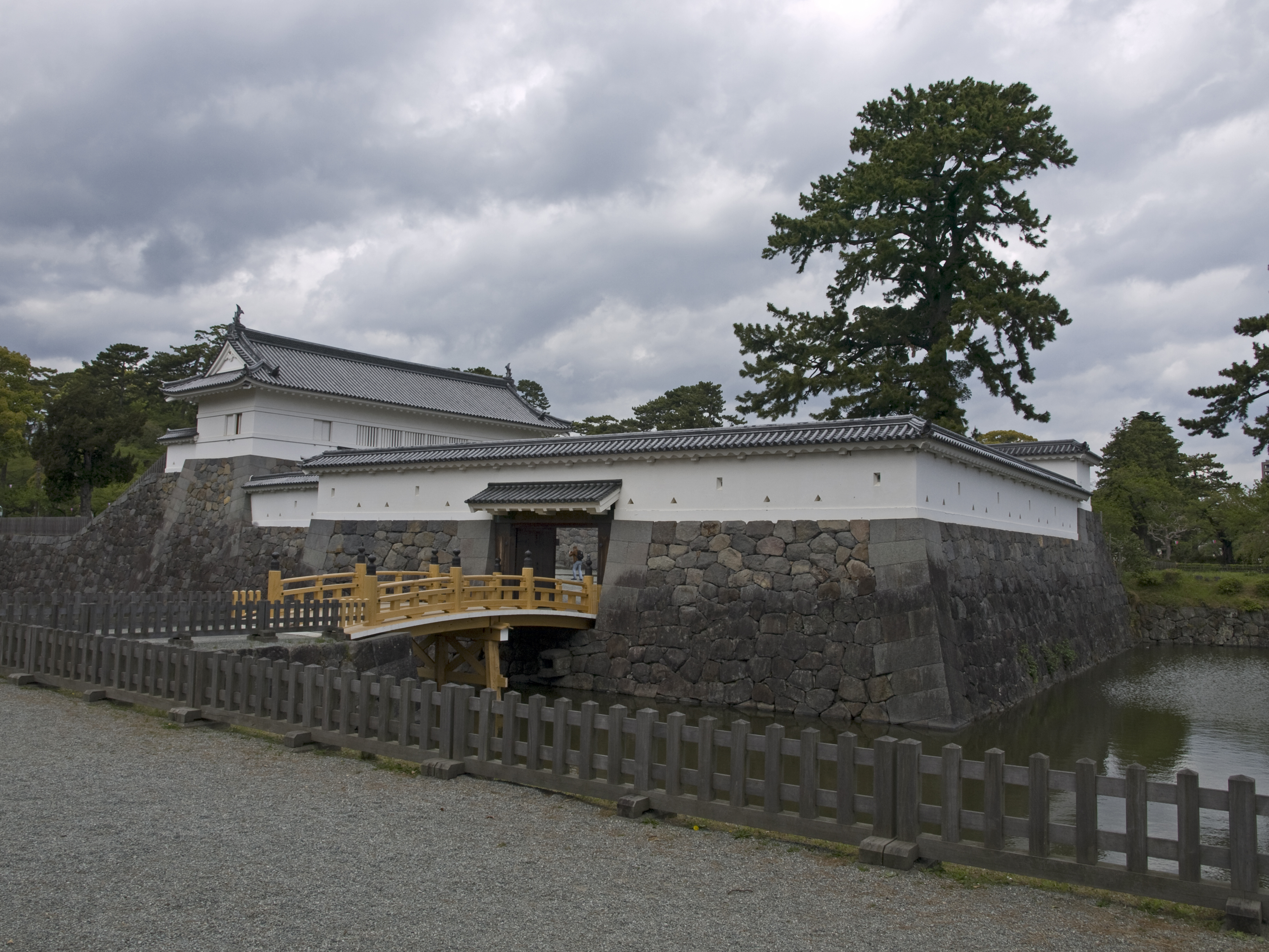 Akagane Gate from the south, Odawara Castle